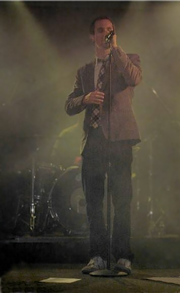 Photo of the singer Ivri Lider of 2005 in a concert